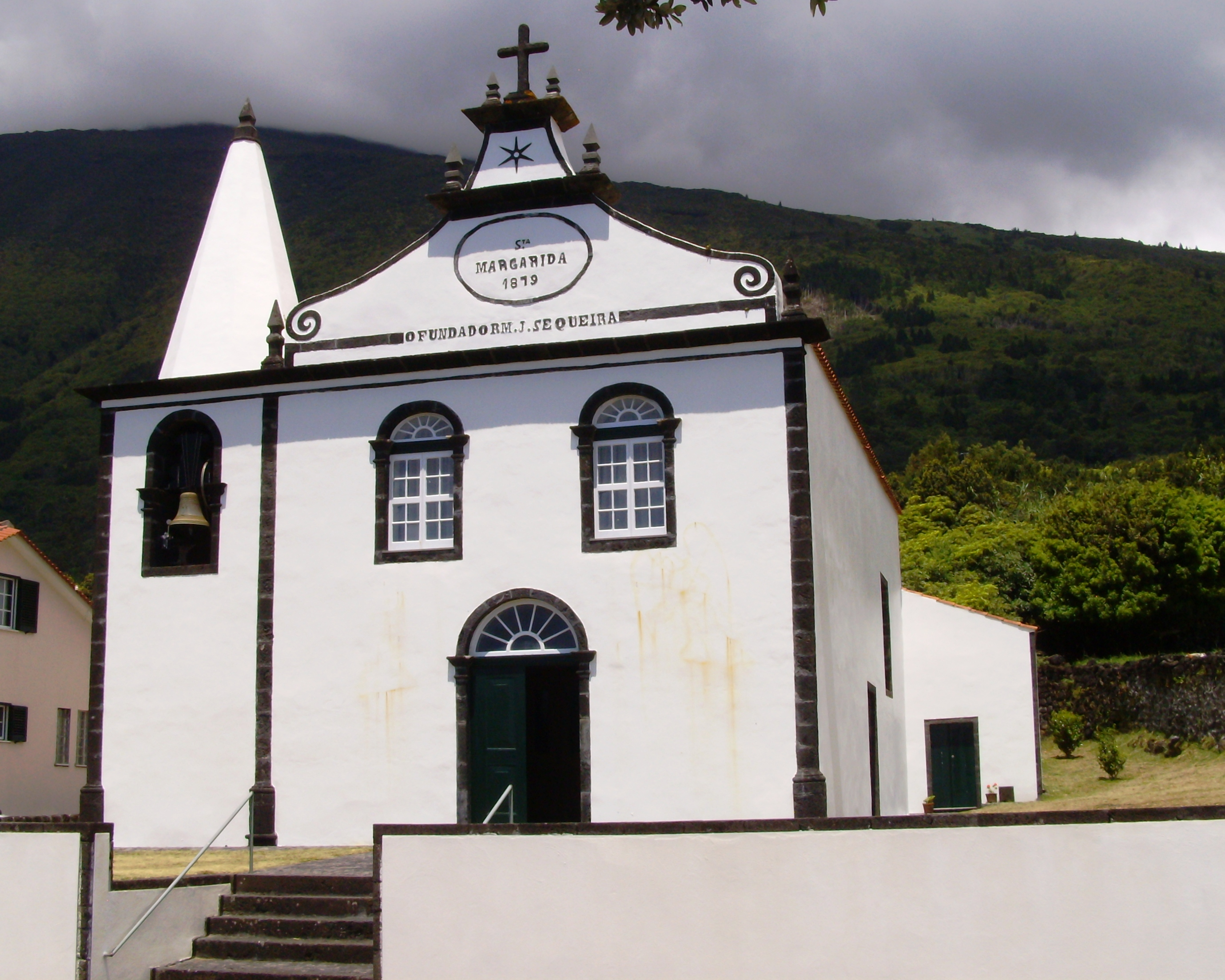 Chapel of Santa Margarida, Terra do Pão, São Caetano, Madalena do Pico, Pico (Azores), Portugal